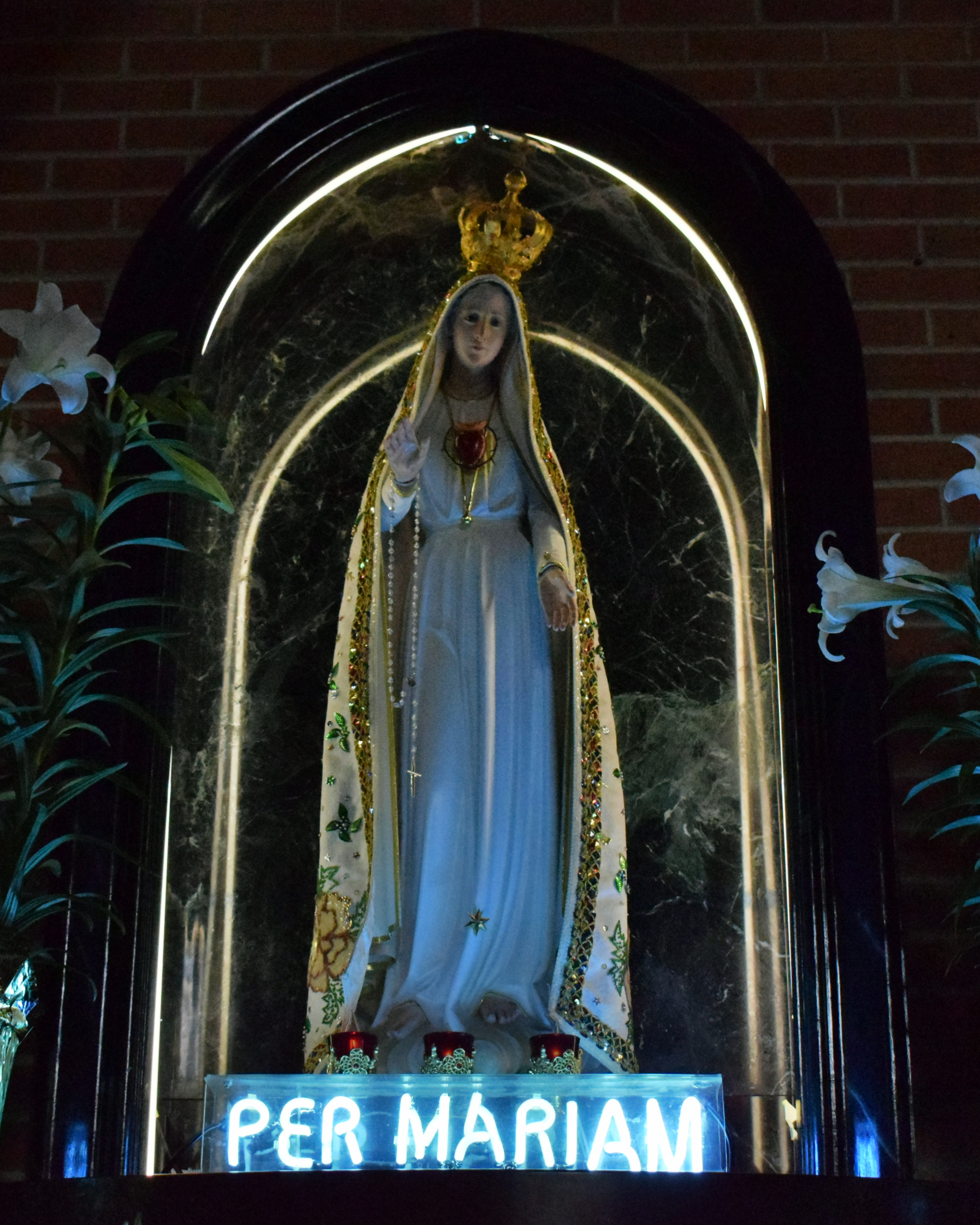 Shrine of the Immaculate Heart of Mary (Cathage, MO) - Our Lady of Fátima, Per Mariam